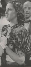 Mercedes Gisper-actriz